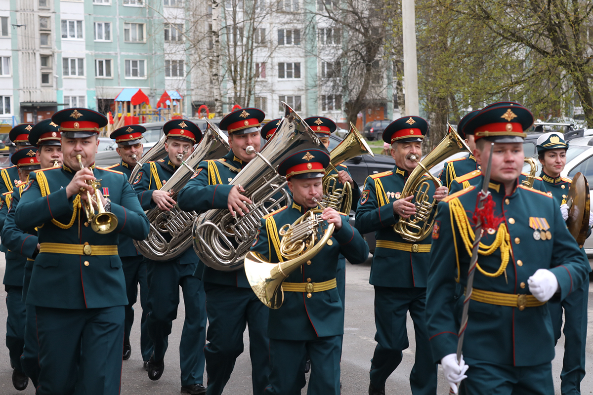 Плац-парад военнослужащих Западного военного округа для фронтовика, штурмовавшего Берлин